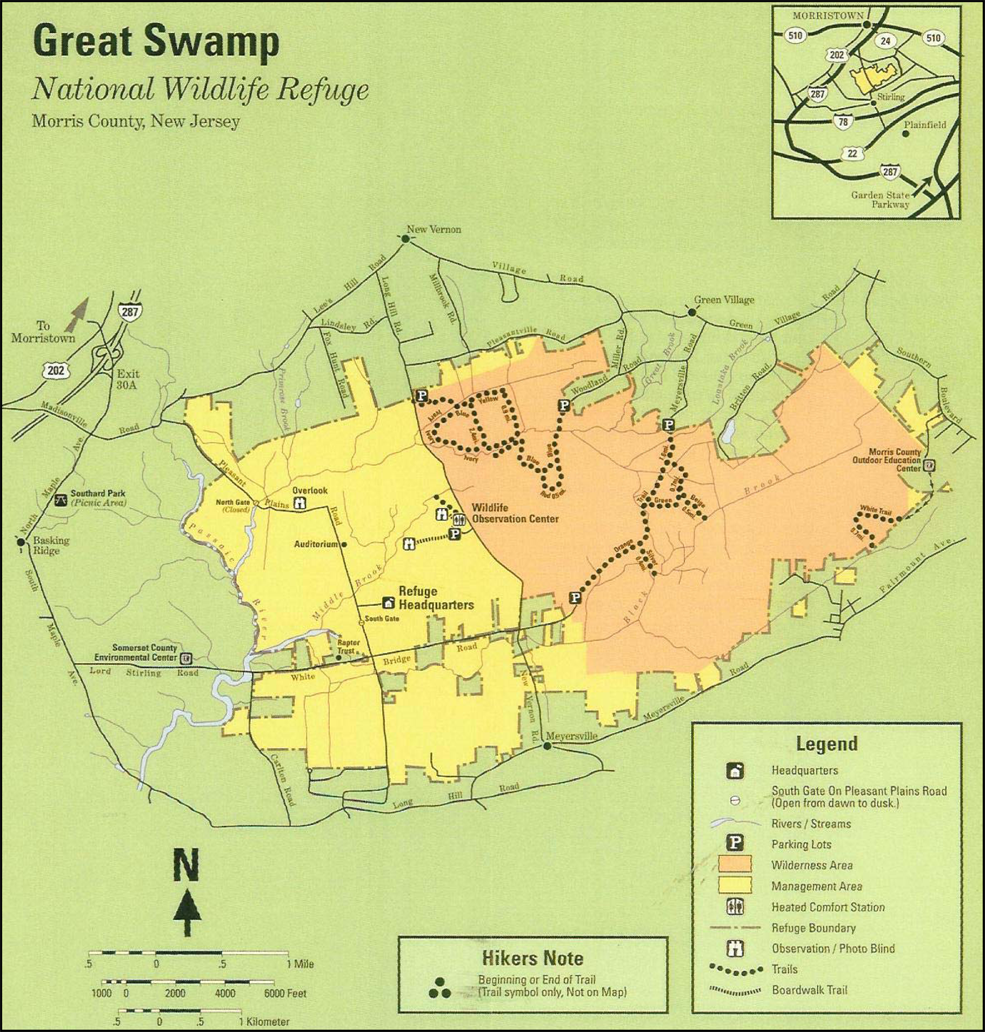 Map of the Great Swamp National Wildlife Refuge in Morris County, NJ.